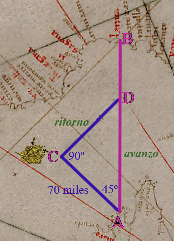 Depiction of the Rule of Marteloio (Medieval traverse problem) on a portolan chart. Intended course of ship from Corsica to Genoa is line AB (violet, bearing = N). But actual course of the ship has been 70 miles on line AC (blue, bearing = NW). Proposed return to intended course is line CD (blue, bearing NE). Calculating the distance needed to sail on the return course (ritorno) to recover and the implied avanzo (distance made good on the intended course) is a trigonometric problem, i.e. mathematically solving the triangle ACD, with two angles and one side given. Underlying map is extracted from an anonymous Genoese portolan chart (c.1325-50), in Wiki Commons File:Mediterranean chart fourteenth century2.jpg